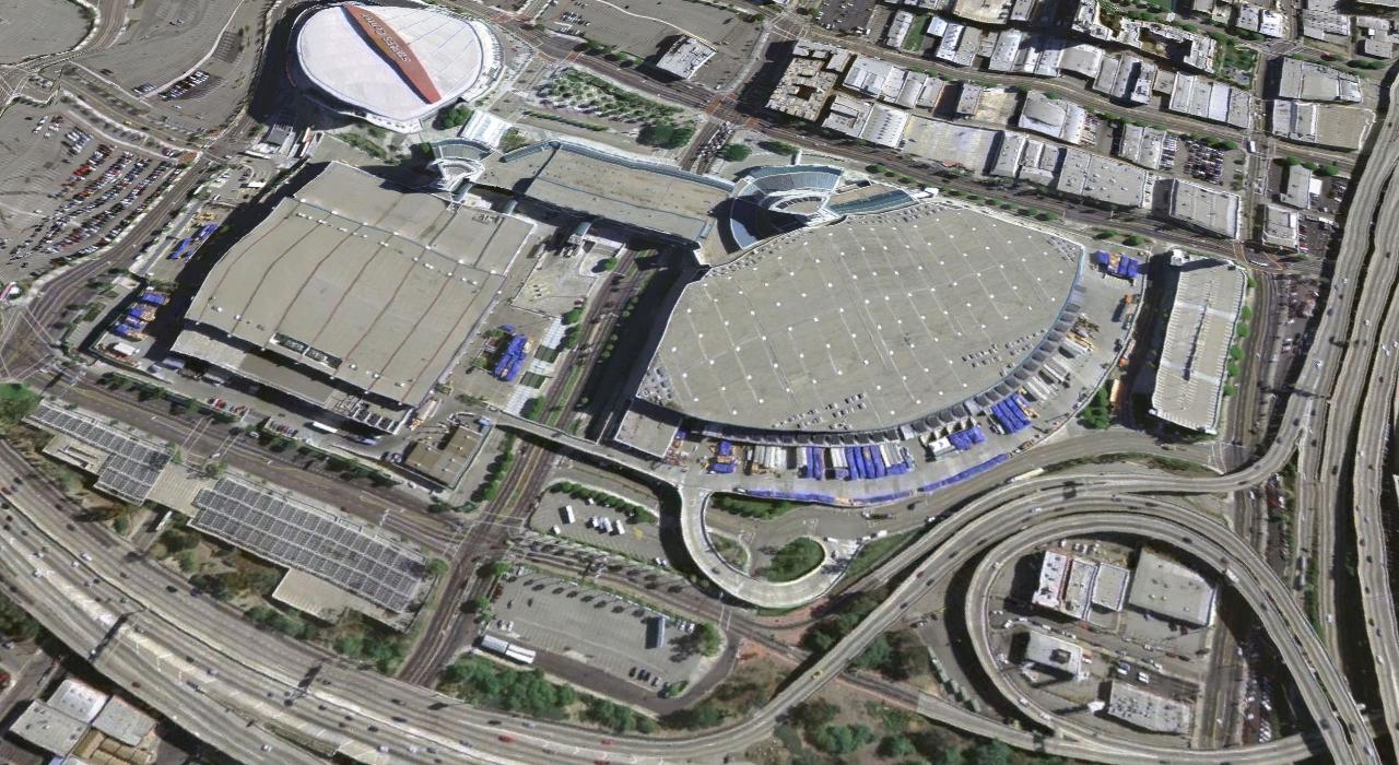 Aerial view of the Los Angeles Convention Center — in the southern Downtown Los Angeles, California.